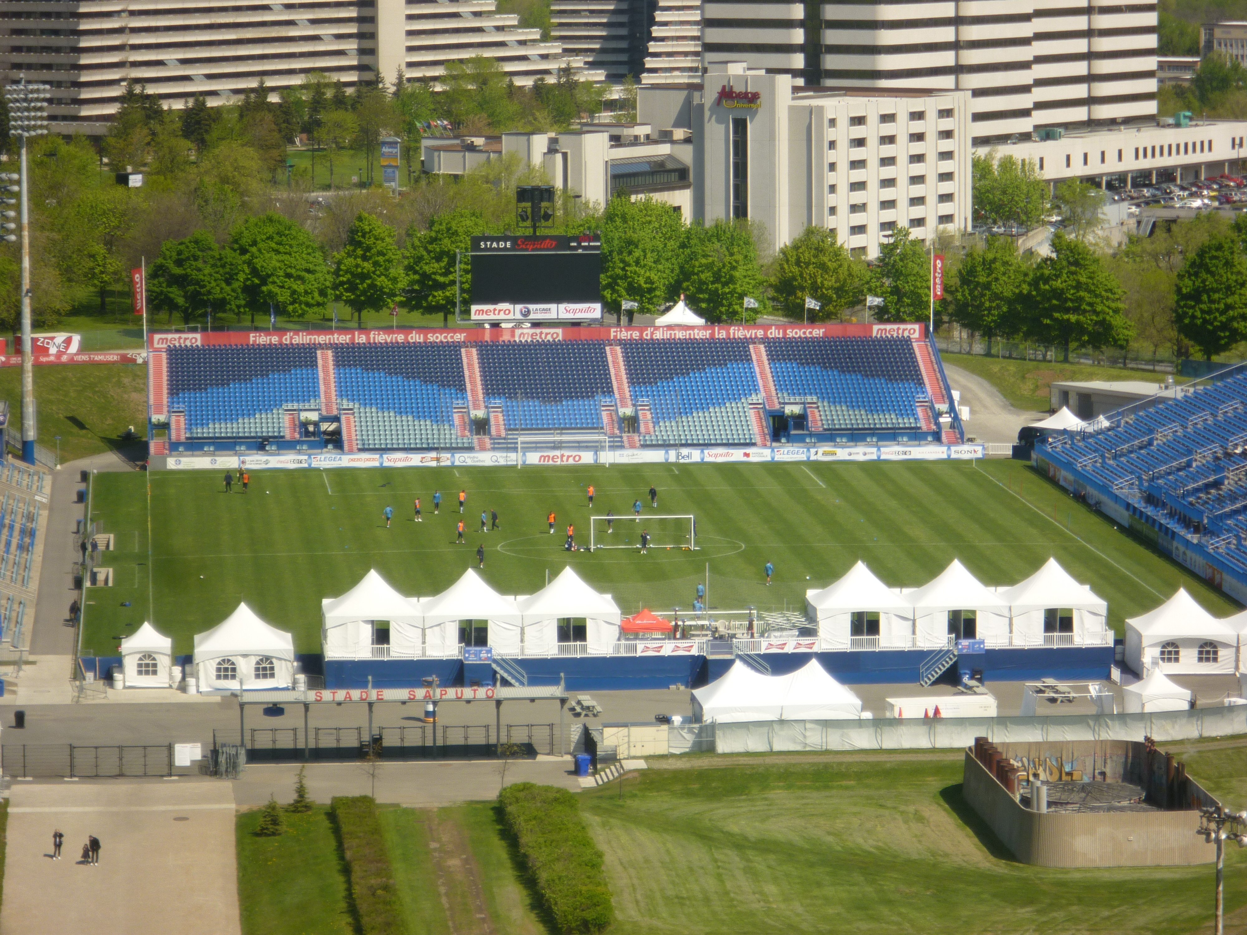 Stade Saputo with players in training session.